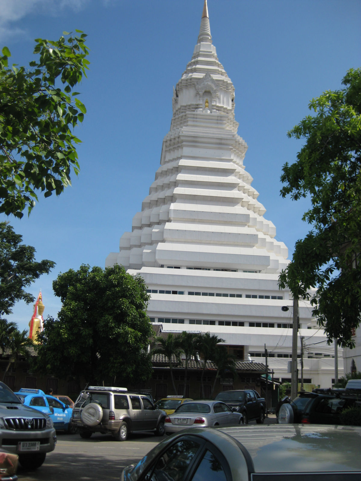 Wat Pak Nam, Phasi Charoen District, Bangkok